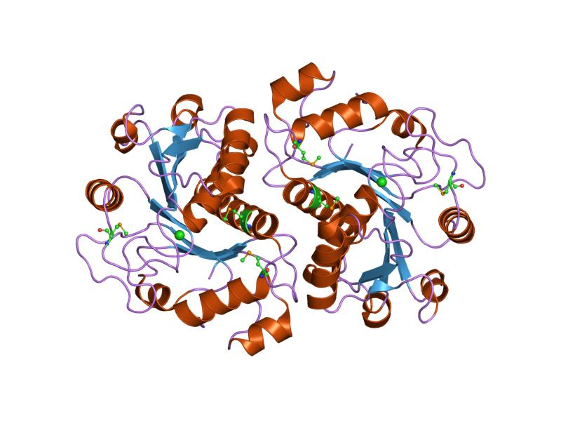 Cartoon representation of the molecular structure of protein registered with 1jzt code.